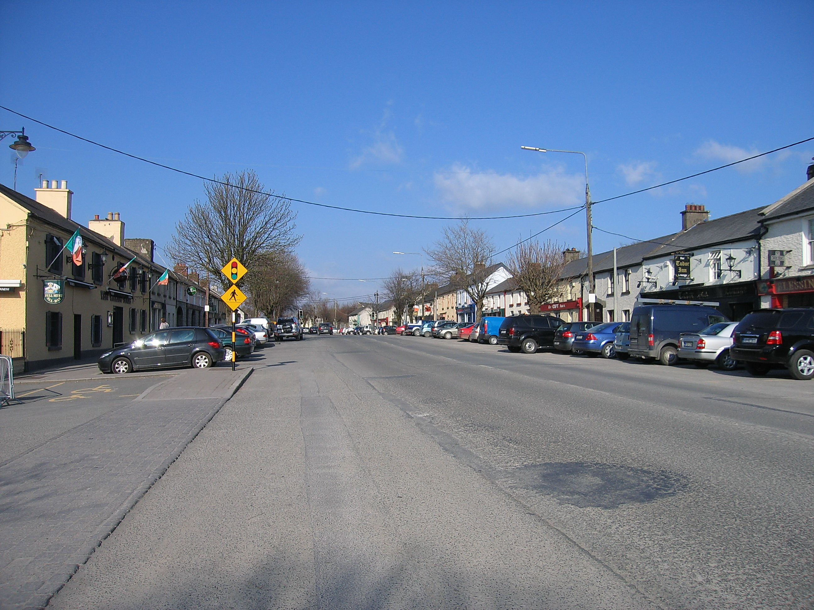 Main Street Blessington (the N81 road) looking north